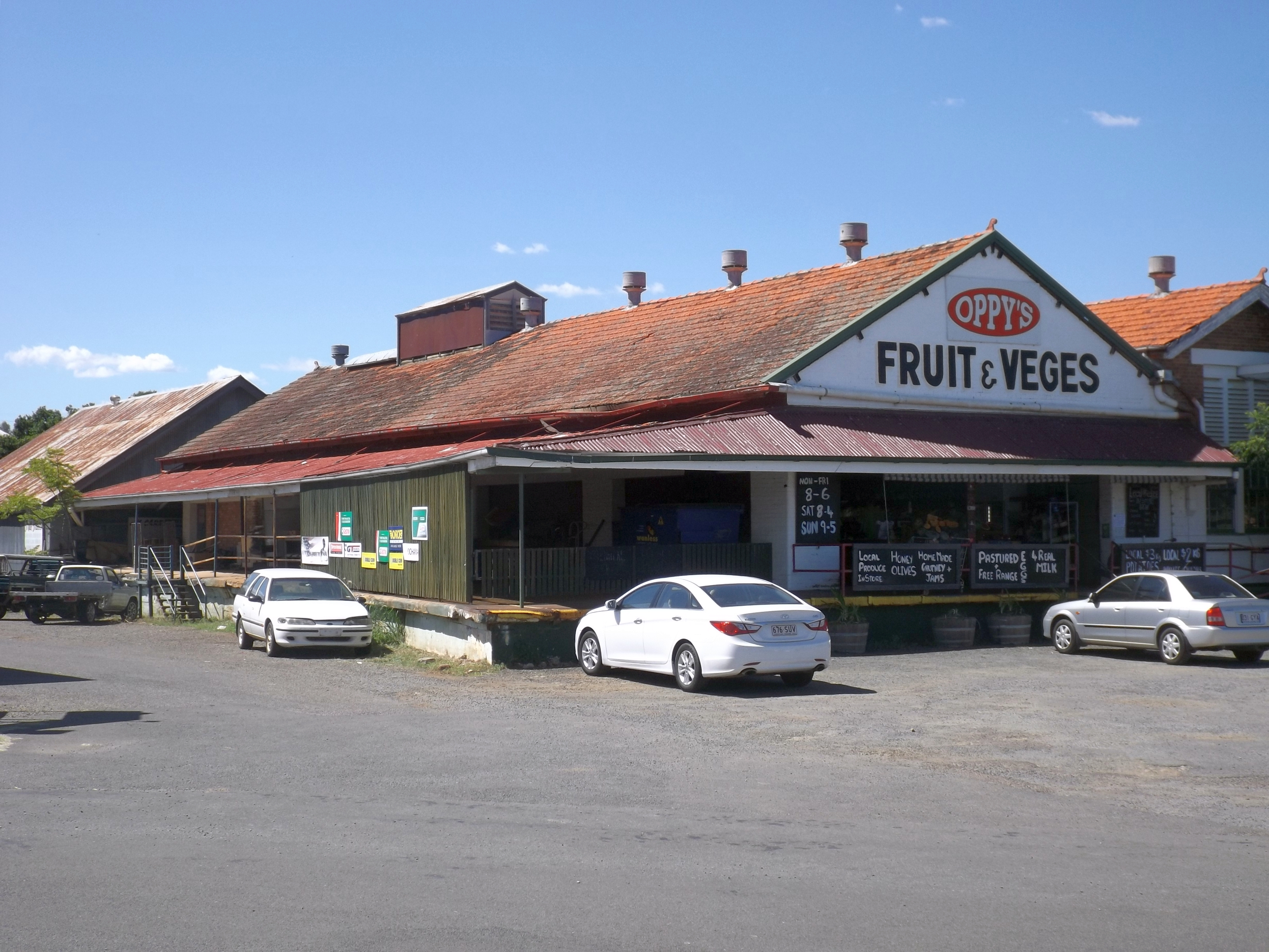 Photo of Boonah Butter Factory at Boonah, Scenic Rim Region, Queensland, Australia. The building is currently used as a fruit and vegetable shop.